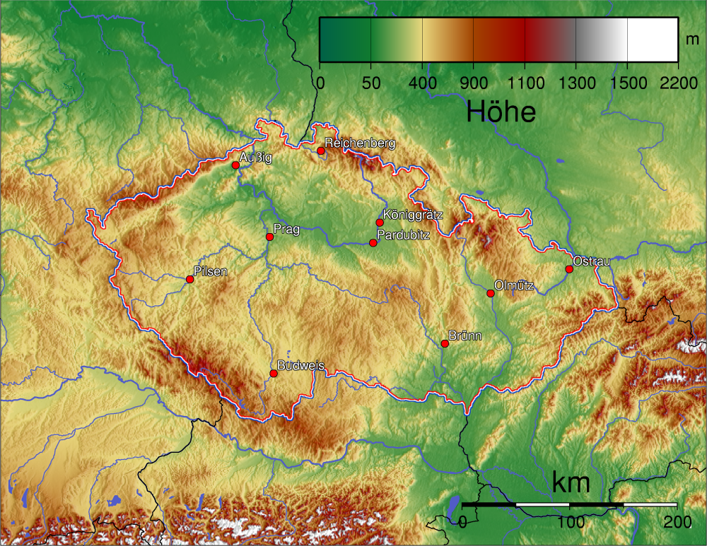 Topography of Czech Republic (German description)